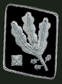 Rang insignia of the SS/Waffen-SS, here universal collar patches to the General’s rank “SS-Obergruppenfuehrer” version 1932 until 1942.